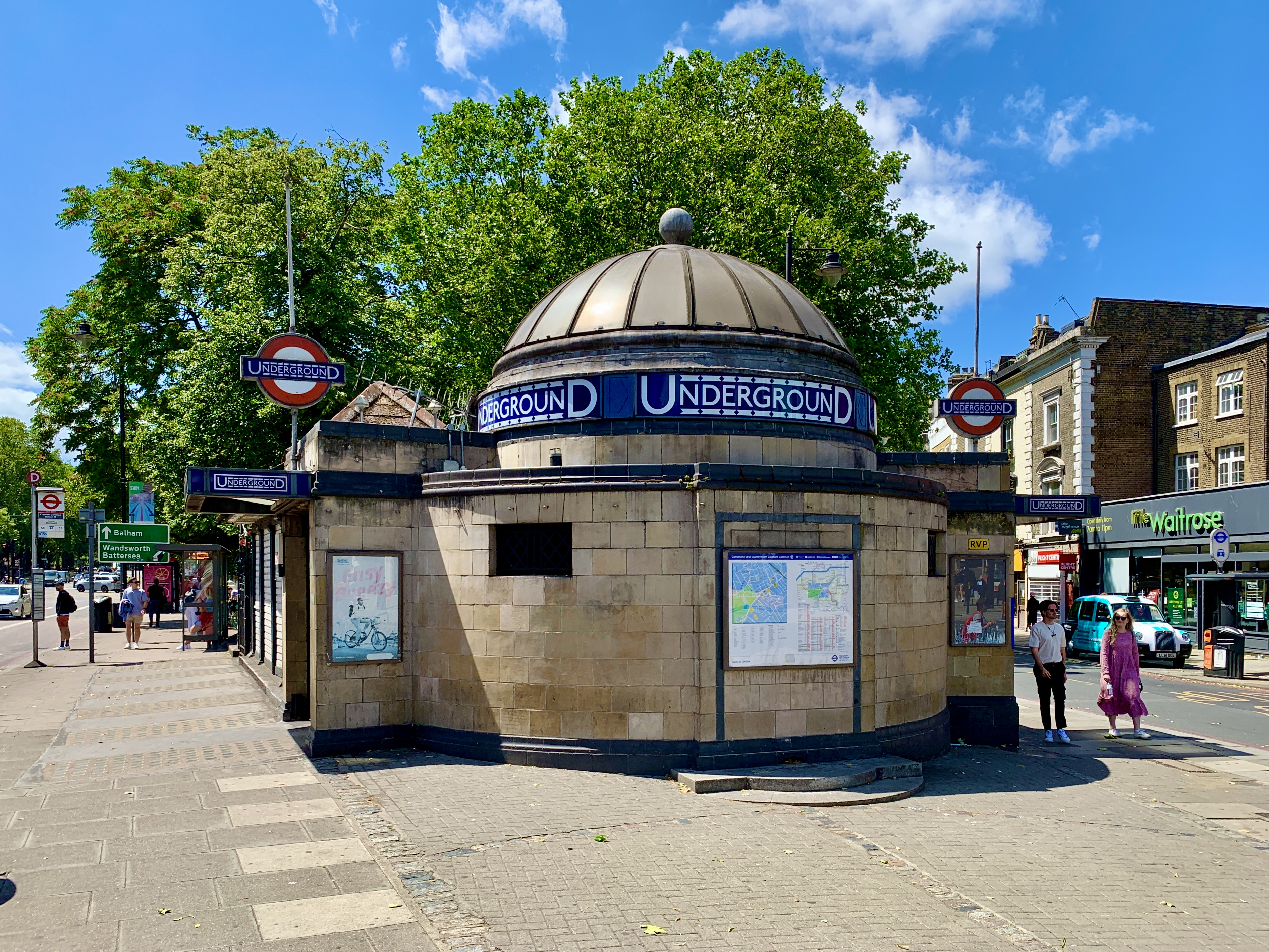 Station building of Clapham Common tube station. Taken during my Northern Line Tube Walk.